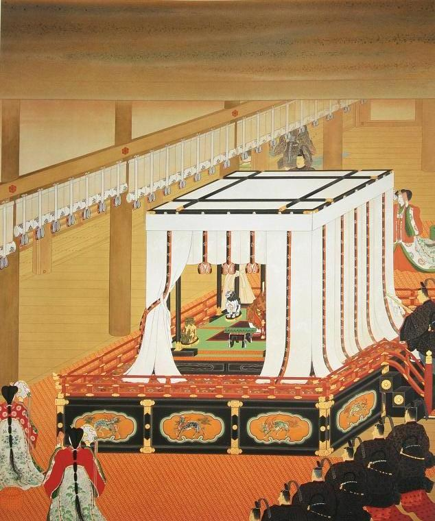 Enthronement of the Emperor by Igai Shōkoku, Meiji Memorial Picture Gallery, Tokyo, Japan